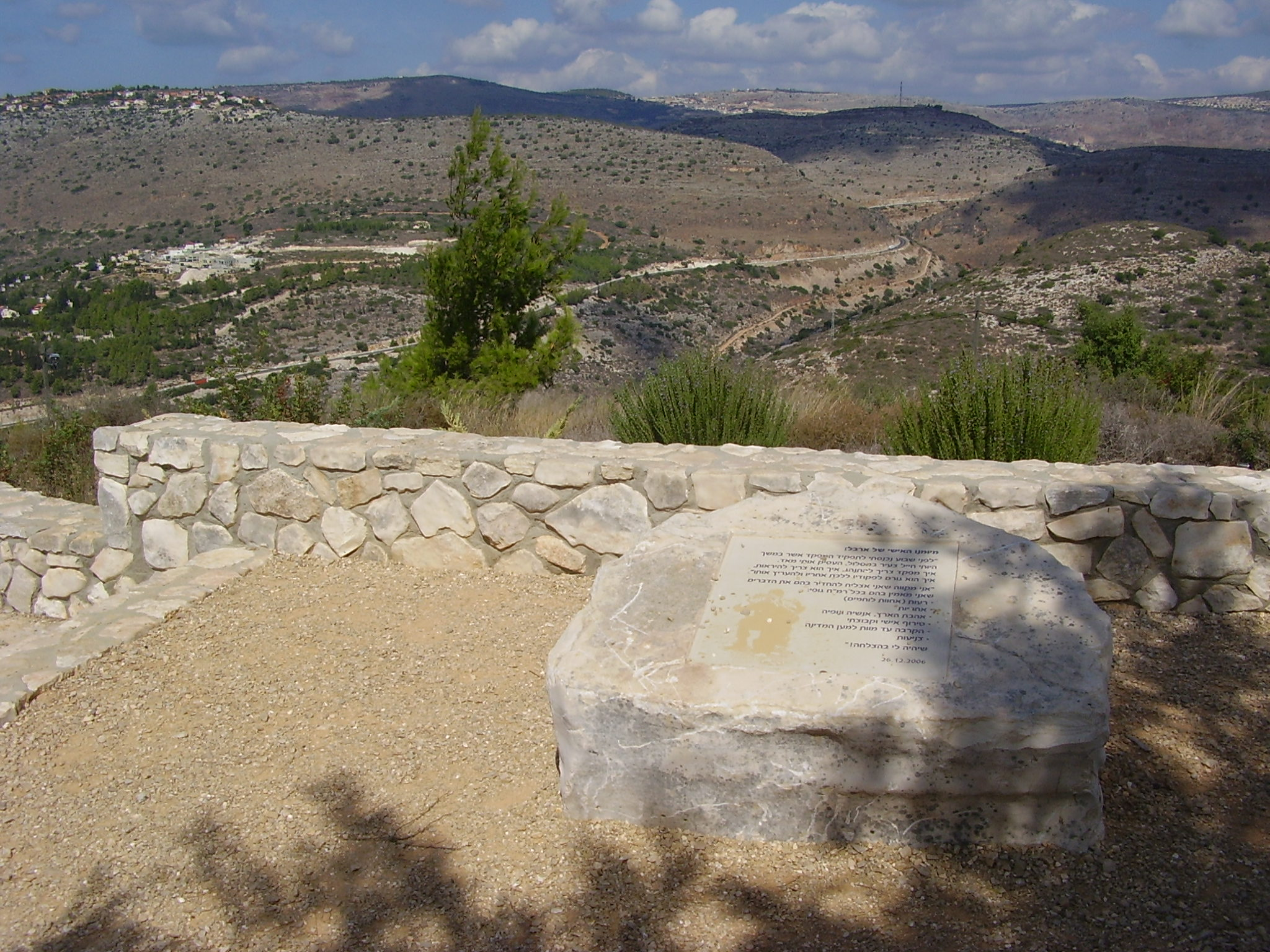 view from arbel hill in lower galilee